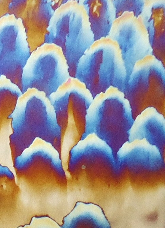 Made by Mauro Cateb, Brazilian jeweler and silversmith.